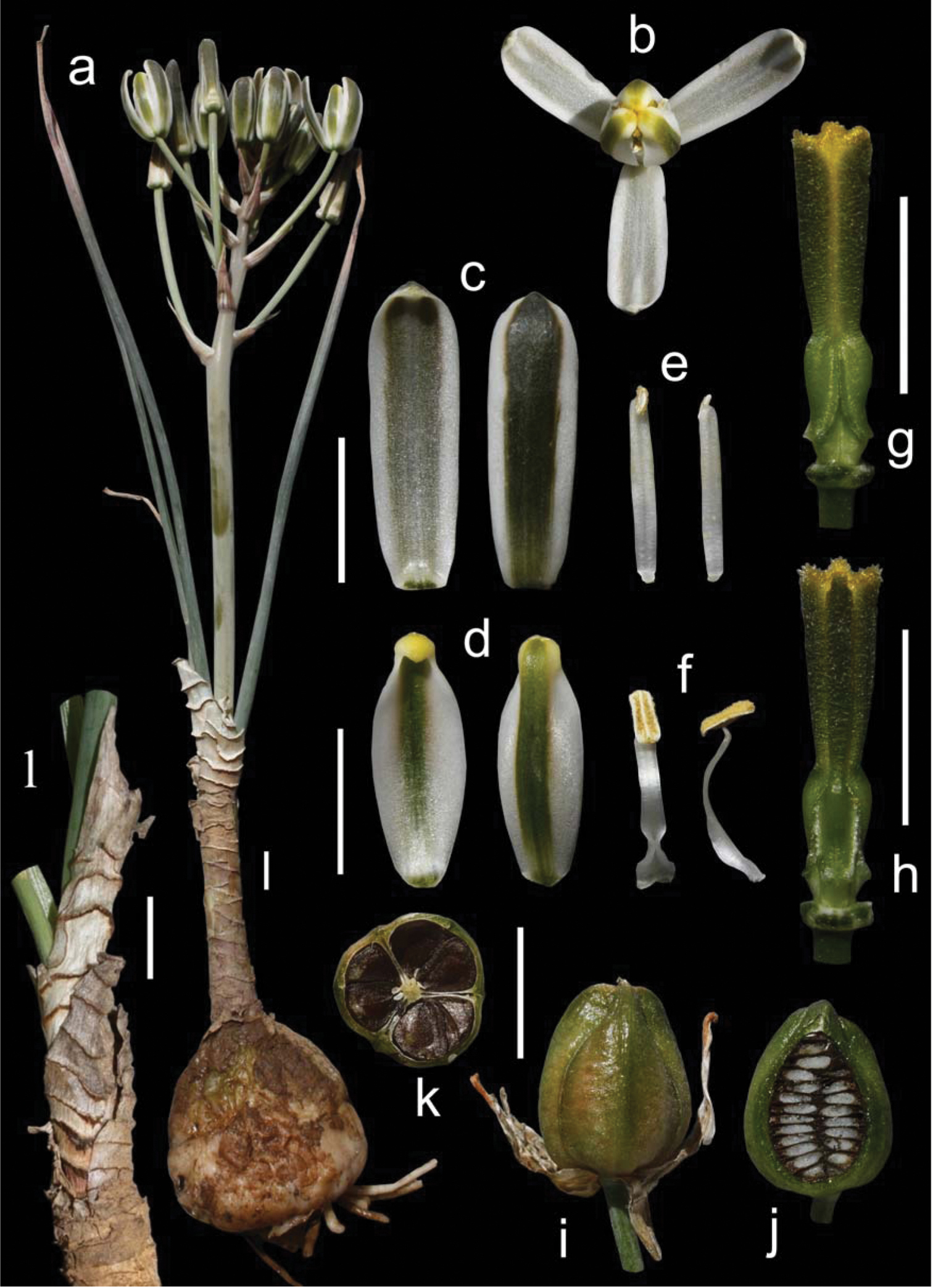 Albuca bakeri Mart.-Azorín & M.B. Crespo. North of Grahamstown, turn off to Kwandwe (holotype: M. Martínez-Azorín & A. Martínez-Soler 218 GRA) a Plant b Flower c Outer tepals d Inner tepals e Outer stamen f Inner stamen g–h Ovary, lateral views i Mature capsule j Capsule, longitudinal section k Capsule, transversal section l Bulb neck with membranous banded cataphylls. Scales 1 cm.